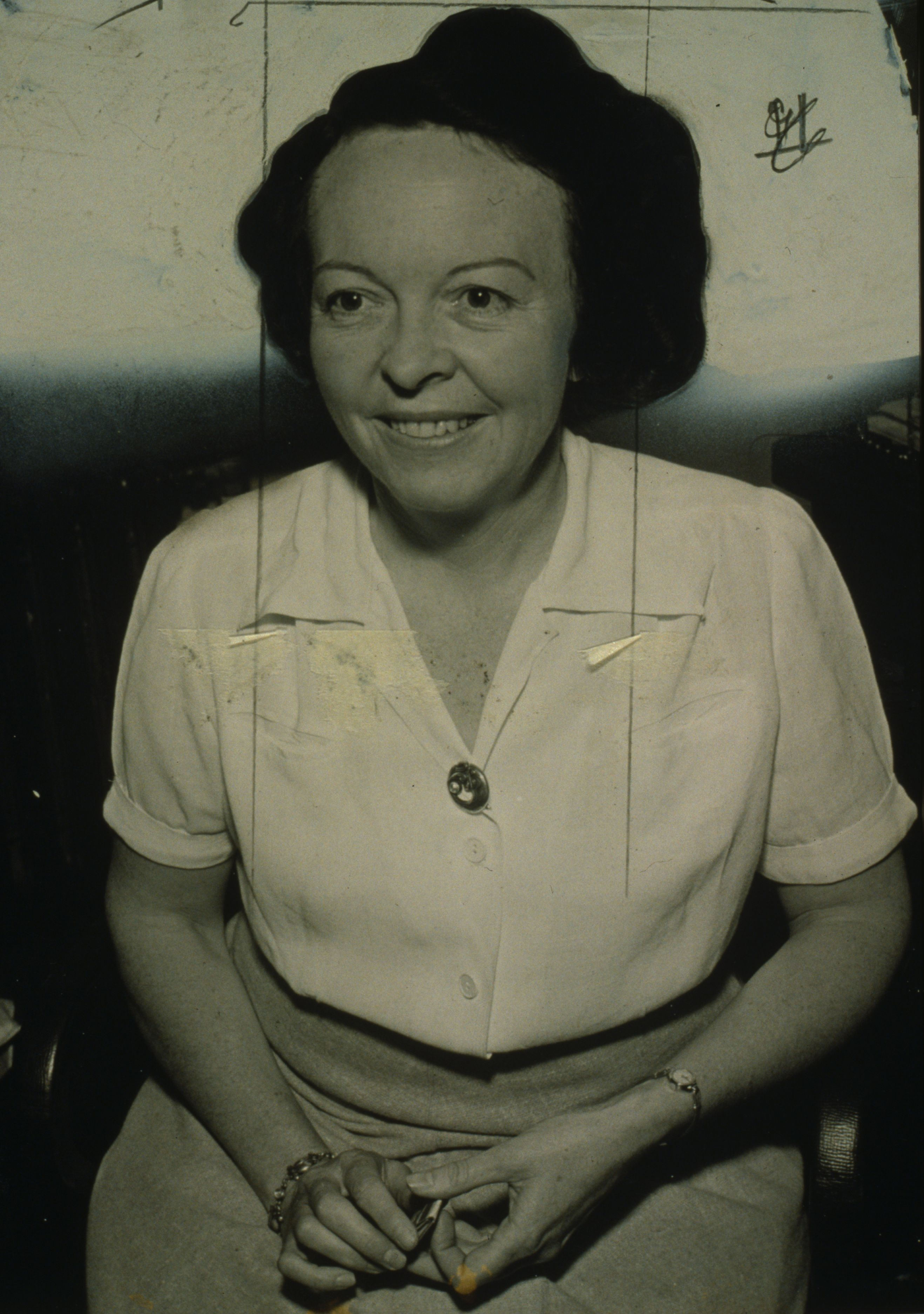 Dr. Dorothy Nyswander, three-quarter length portrait, seated, facing front / World-Telegram photo by Edward Lynch.